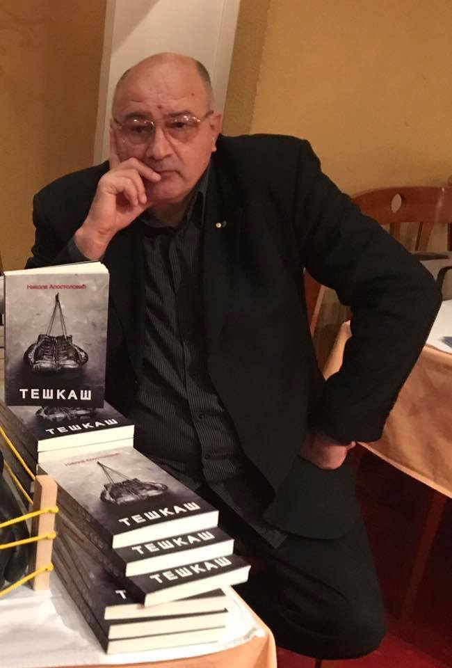 Nikola Apostolovic Srpski (latinica): Nikola Apostolović